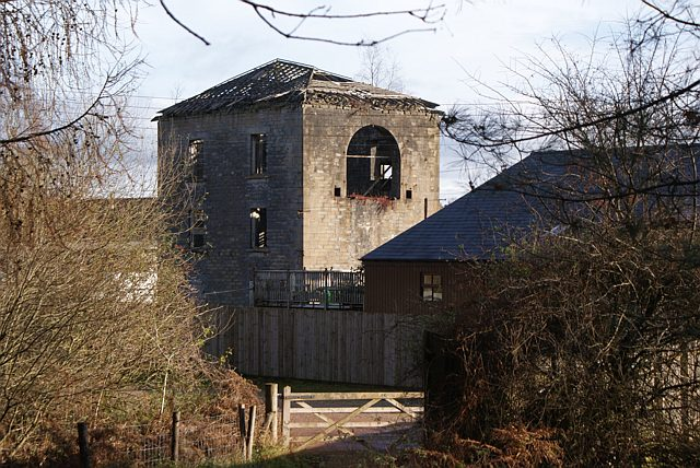 Lightmoor Colliery Engine House - Forest of Dean Now situated in a working timber yard, Lightmoor Colliery was a big coal producing mine with this large engine house to raise coal from the deep seams underground. It is, alas, swiftly falling into ruin but still makes an interesting stop on the Family Cycle path which runs beside it.